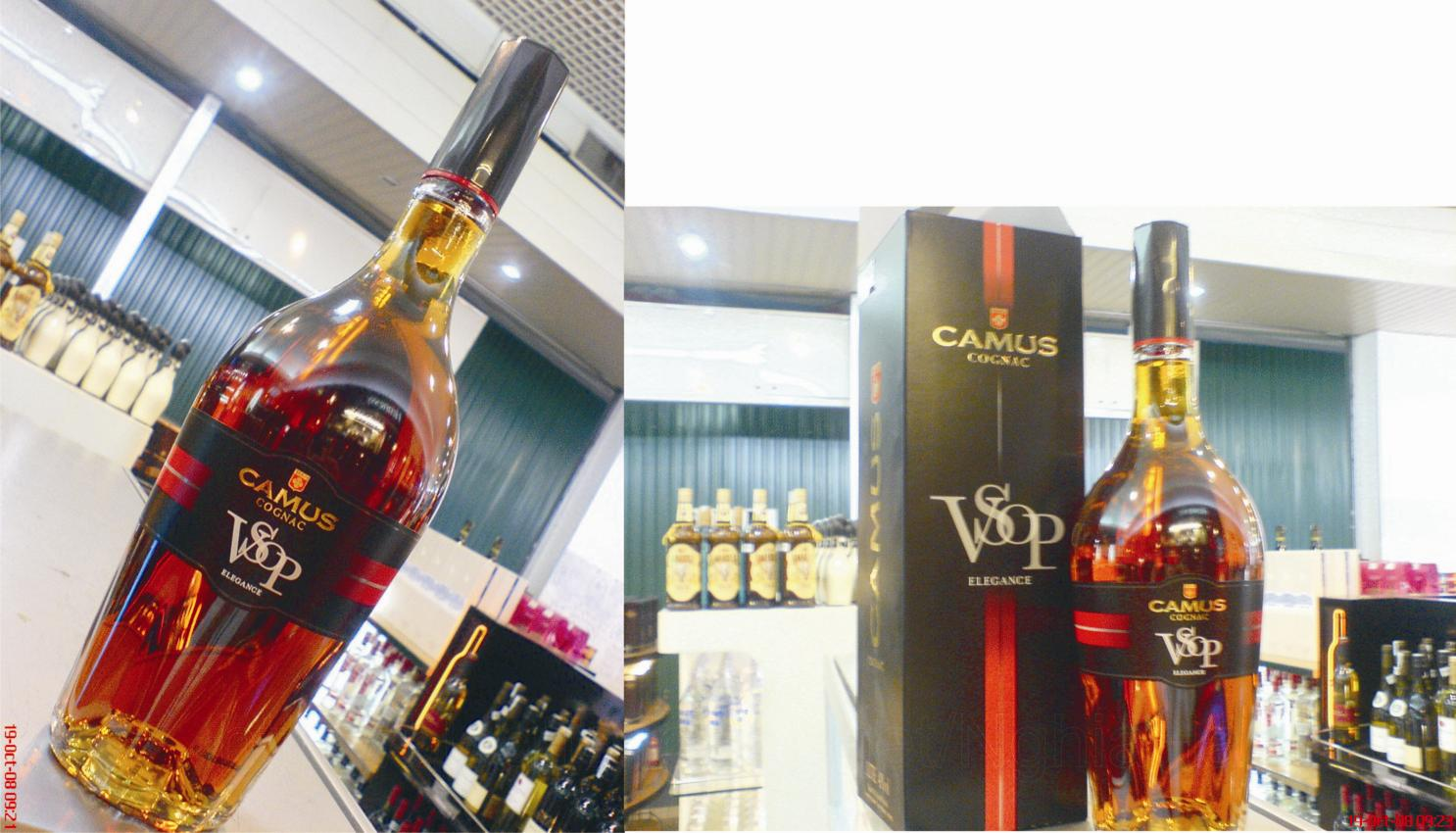 Camus Cognac VSOP at Noi Bai Airport Duty-free shop